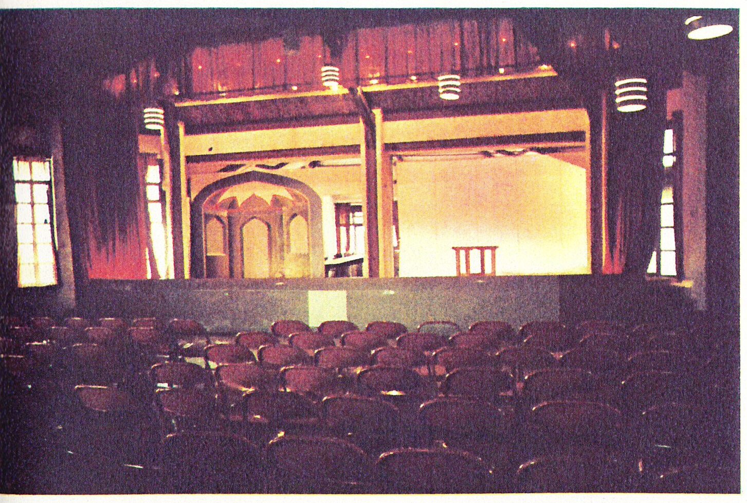 Theater, Winter Camp, Shahsavaar, North Iran